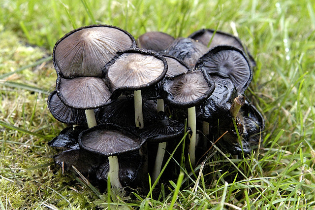 Coprinopsis atramentaria from Commanster, Belgium. The determination of the species shown in this picture has been verified.